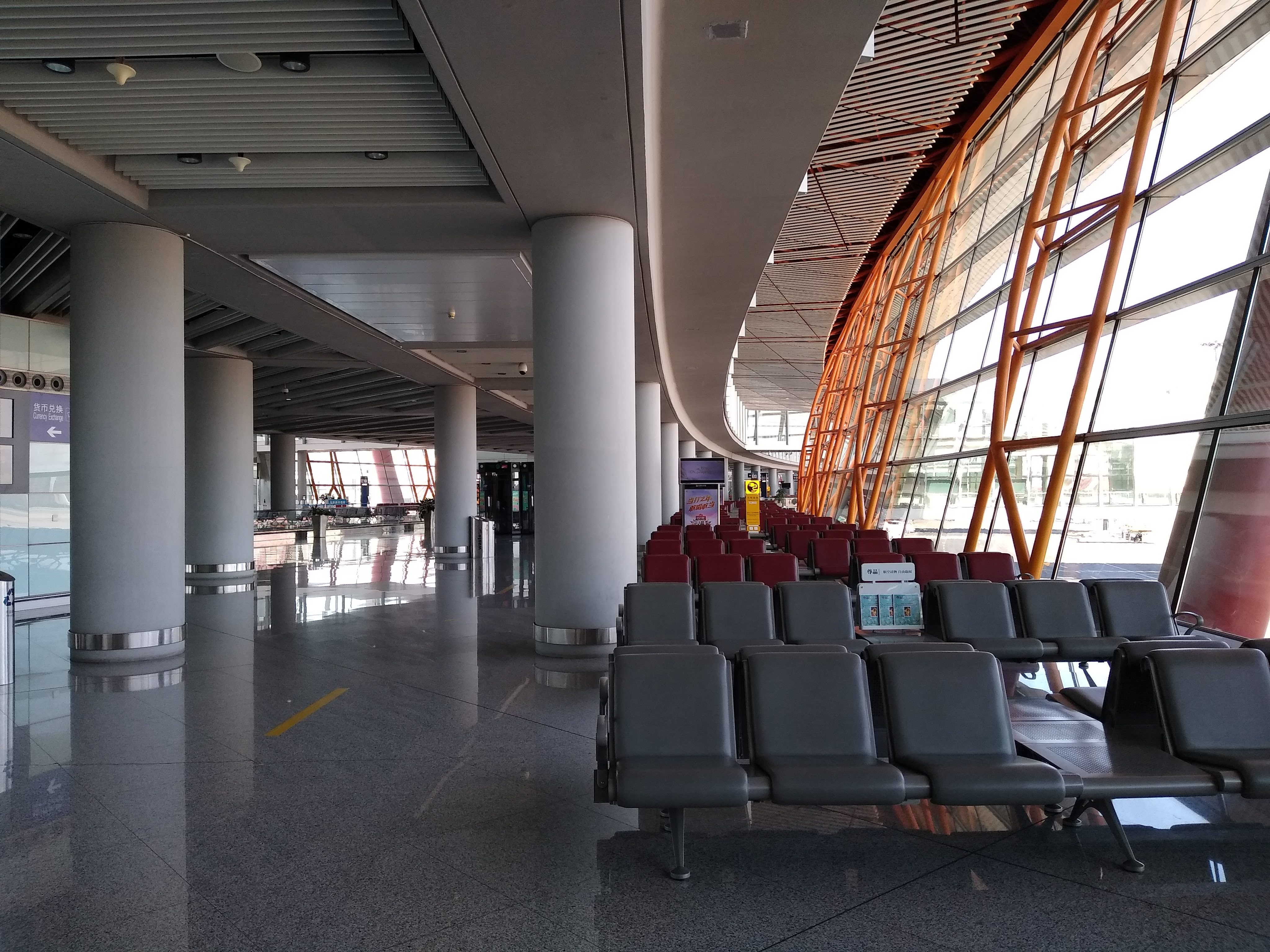 A nearly empty international departures area at Beijing Capital International Airport in March 2020 amid the COVID-19 pandemic.